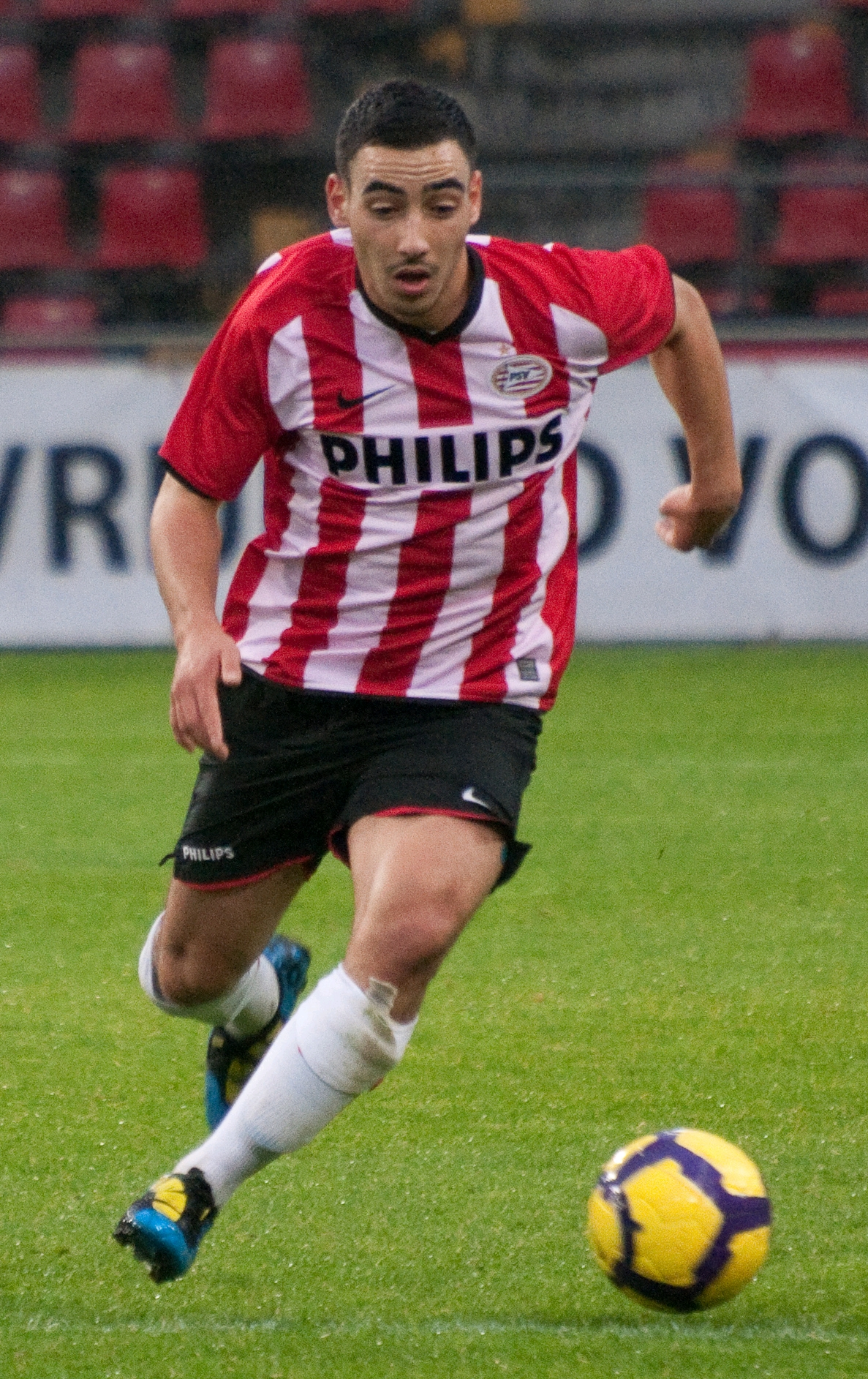 PSV - Willem II in the final round of the Eredivisie Under 23. Final score: 4-0. See also the match report on PSV Jeugd and the match footage on PSV TV.